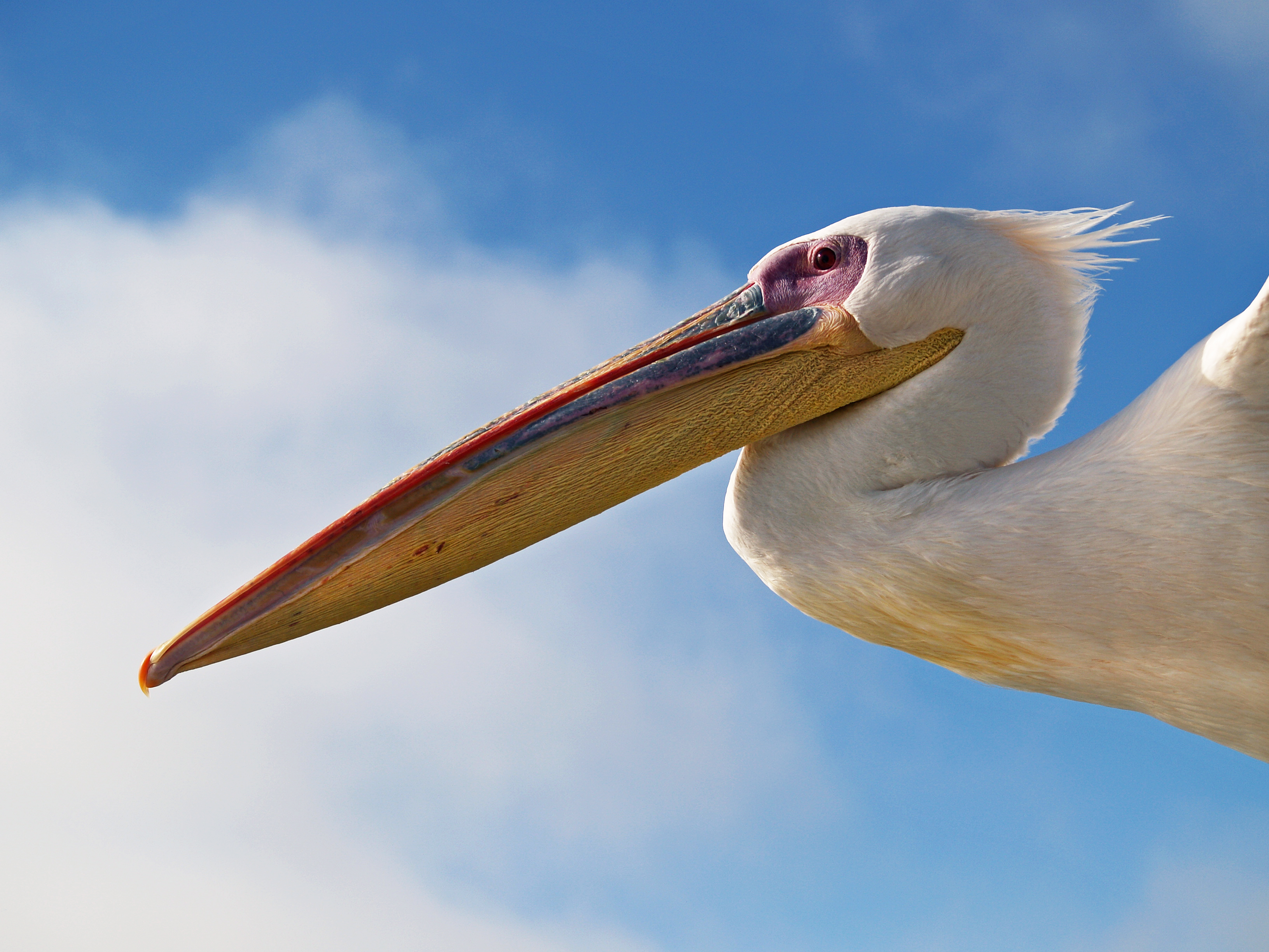 White Pelican (Pelecanus onocrotalus), Walvis Bay, Namibia